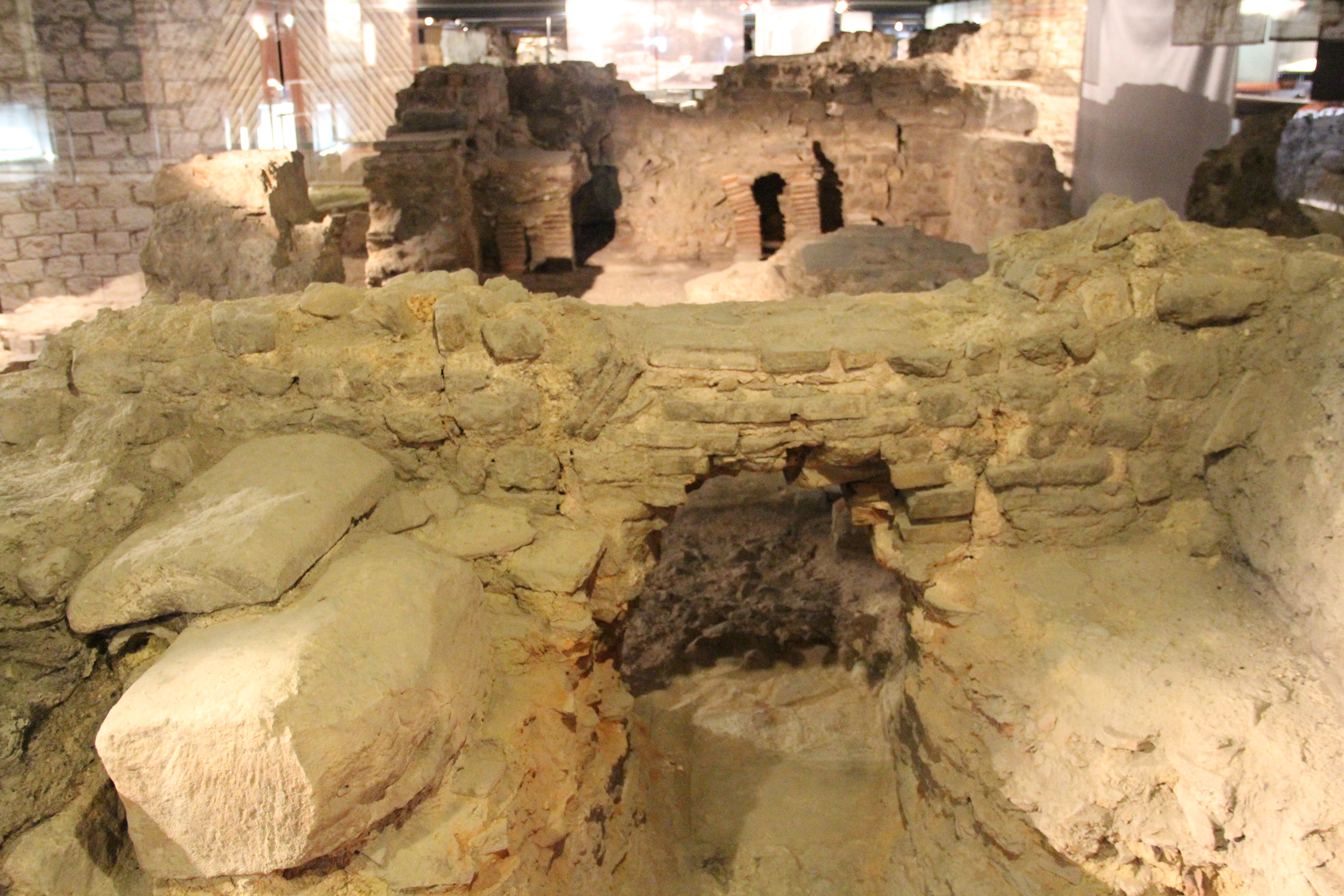 Crypt of the Notre-Dame, Paris, France .